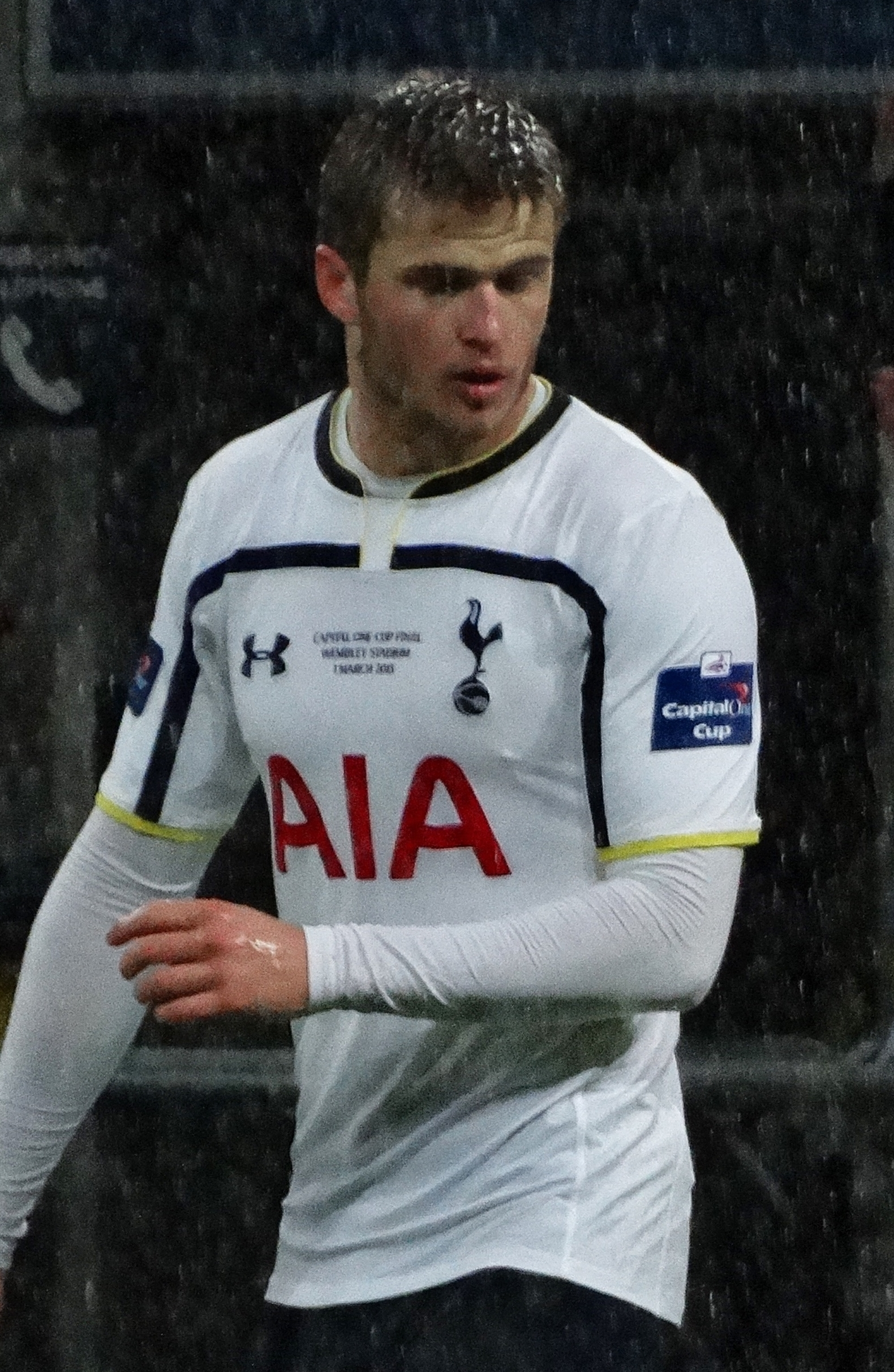 Eric Dier playing for Tottenham Hotspur against Chelsea at Wembley Stadium on 1 March 2015